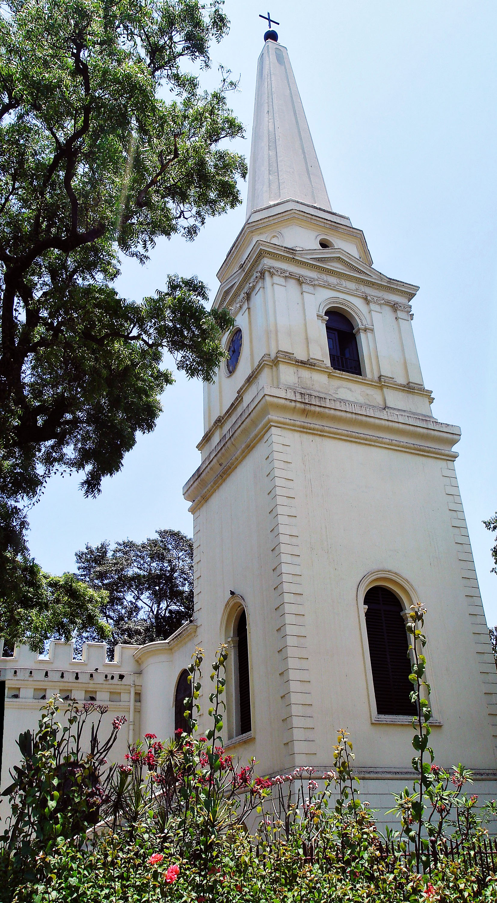 The steeple of St. Mary's Church Chennai